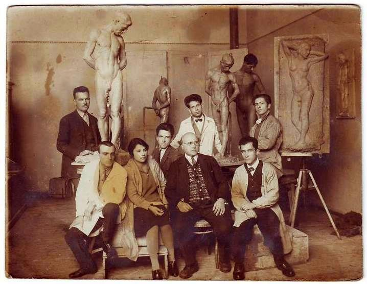 Prof. Marin Vasilev (first raw, second right) with students in a studio. Next to him (left)is Mara Georgieva (1905-1988), a Bulgarian sculptor.